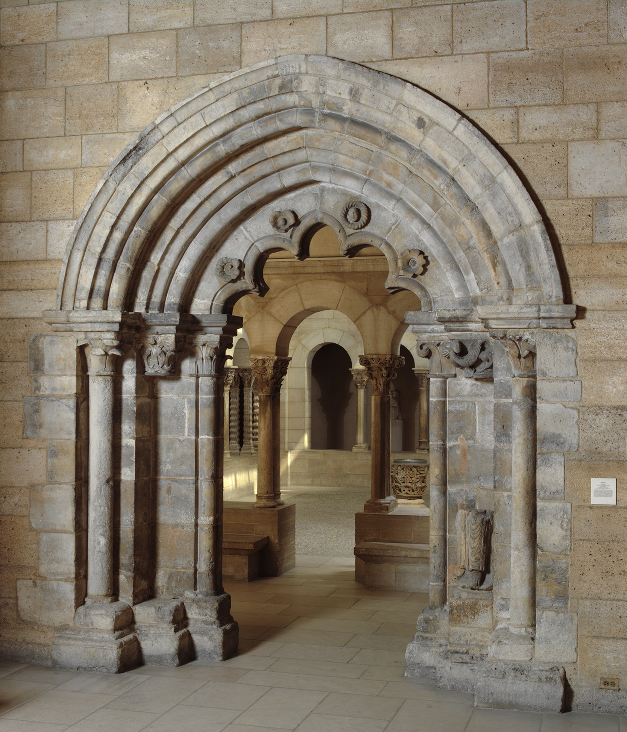 French; Doorway; Installations